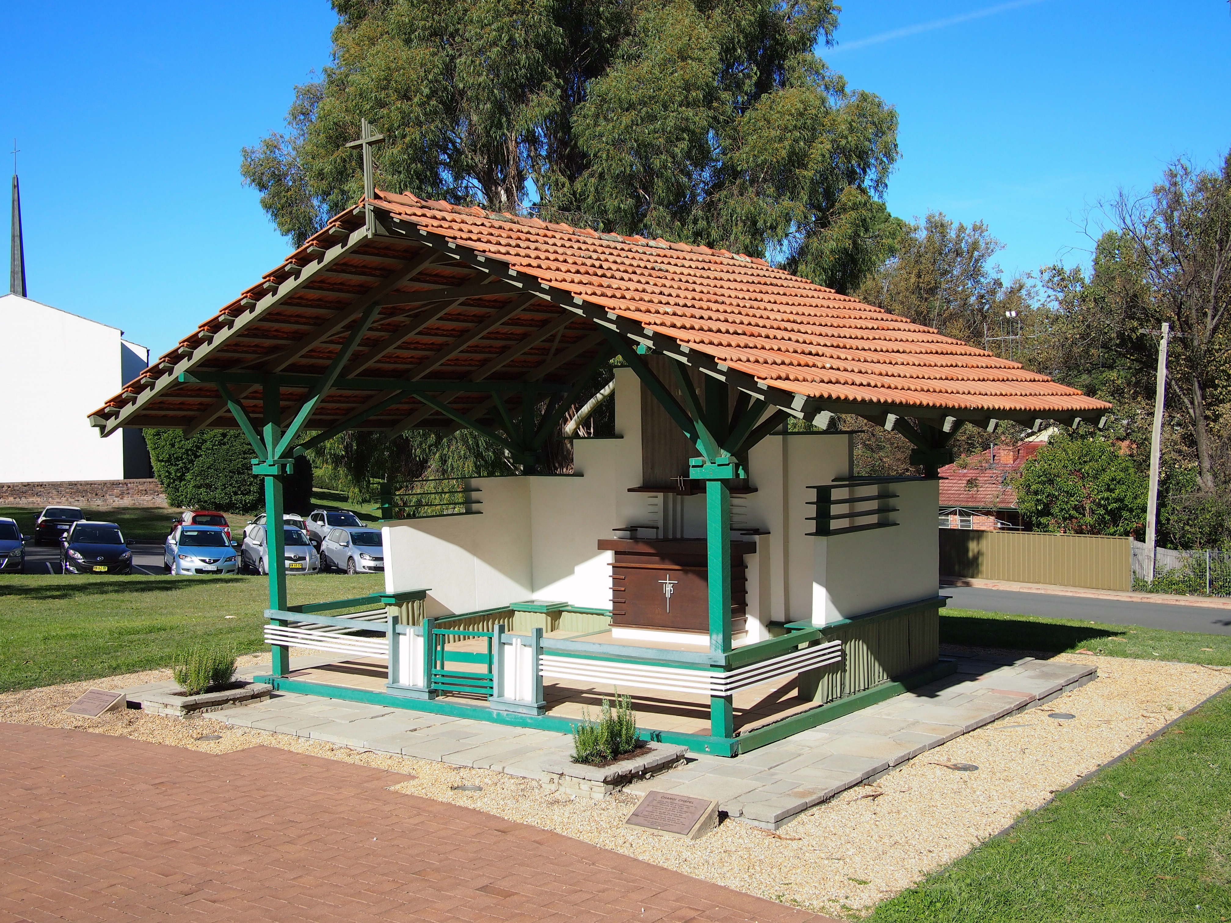 The Changi Chapel on the grounds of RMC Duntroon in March 2013